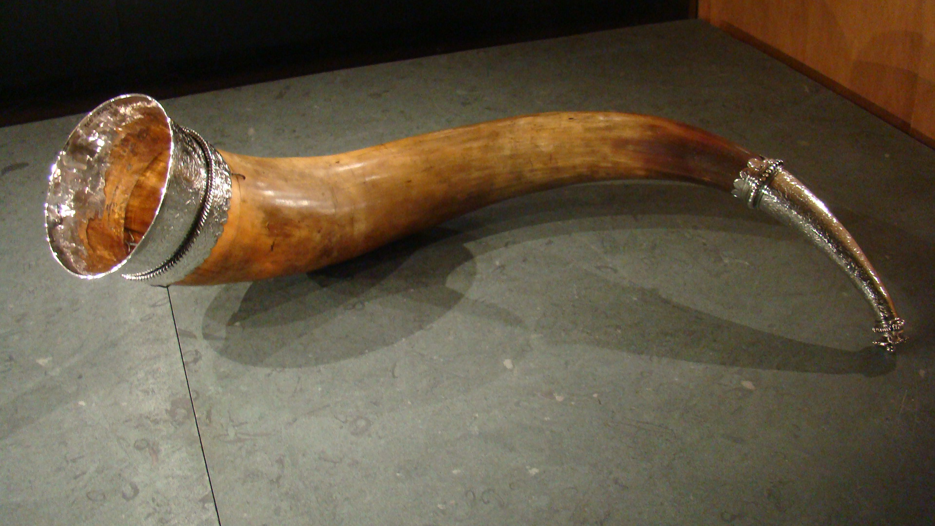 Drinking horn of roordahuizum ca 1550